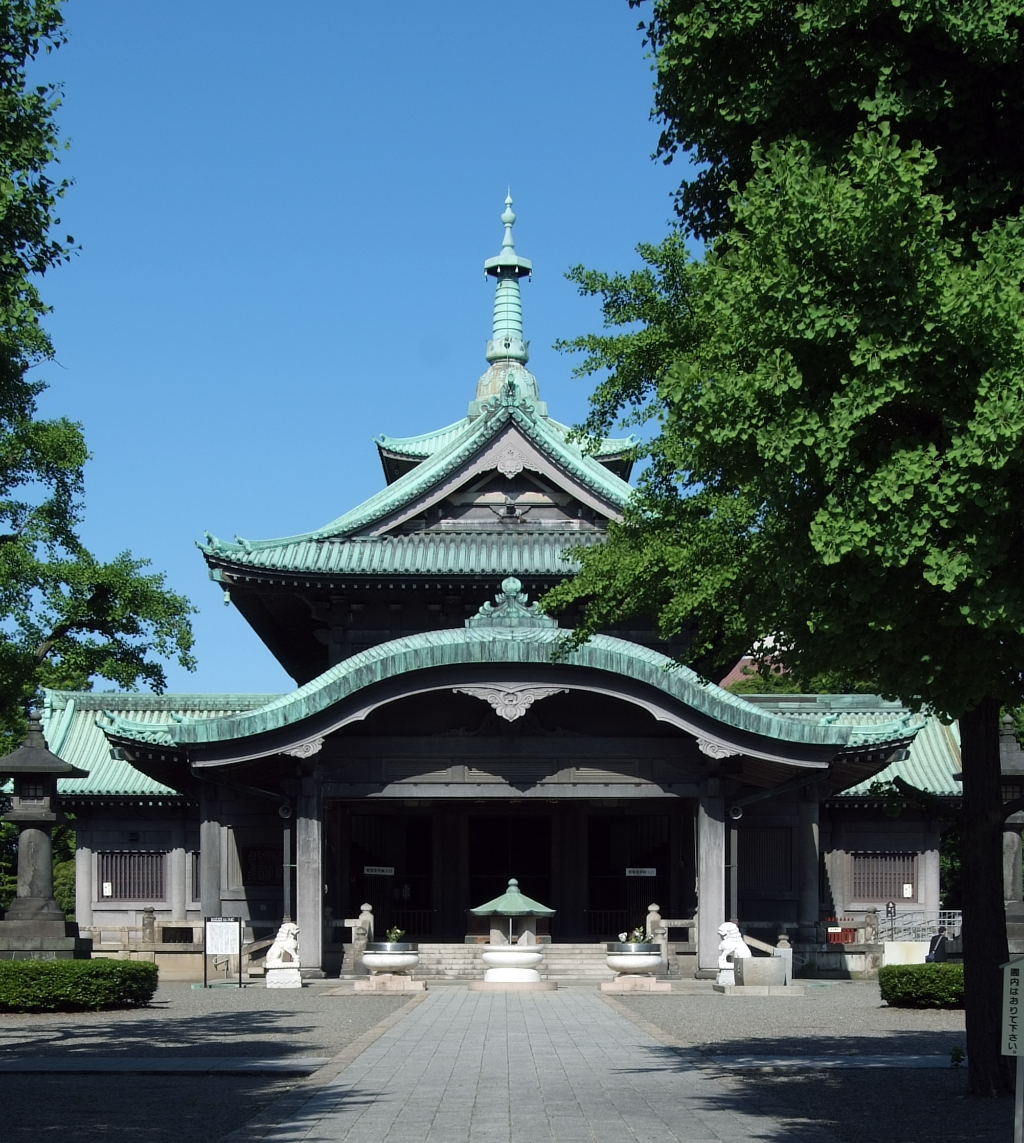 Tokyo Memorial Hall for the Casualties of the Great Kanto Earthquake at Ryogoku, Tokyo, Japan. Architect by Chuta Ito in 1930.